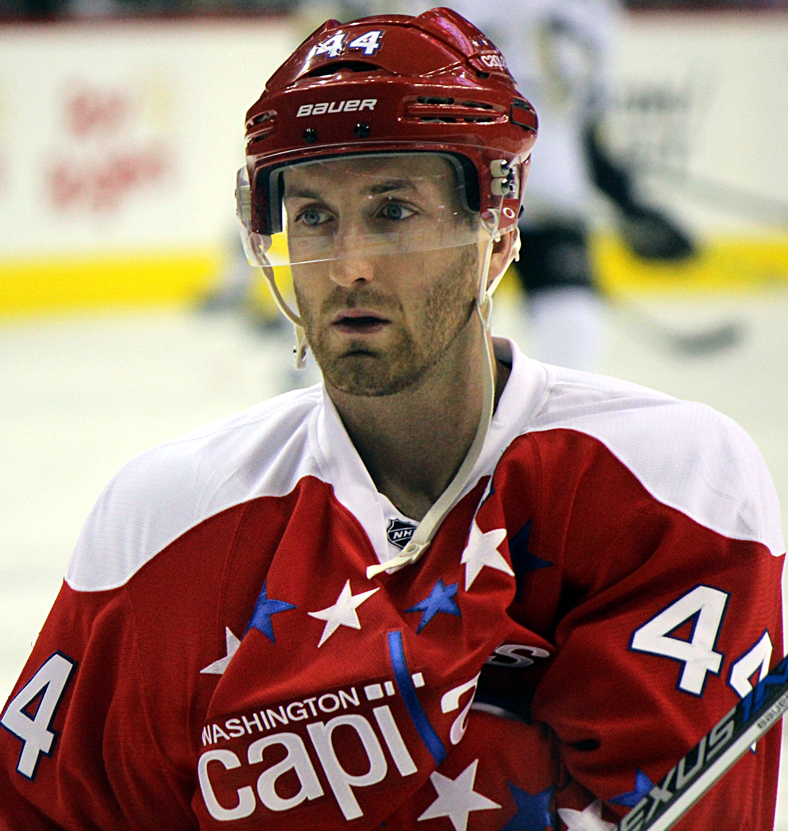 Washington Capitals defenseman Brooks Orpik during a game against the Pittsburgh Penguins, Thursday, April 7, 2016 at Verizon Center in Washington, D.C.